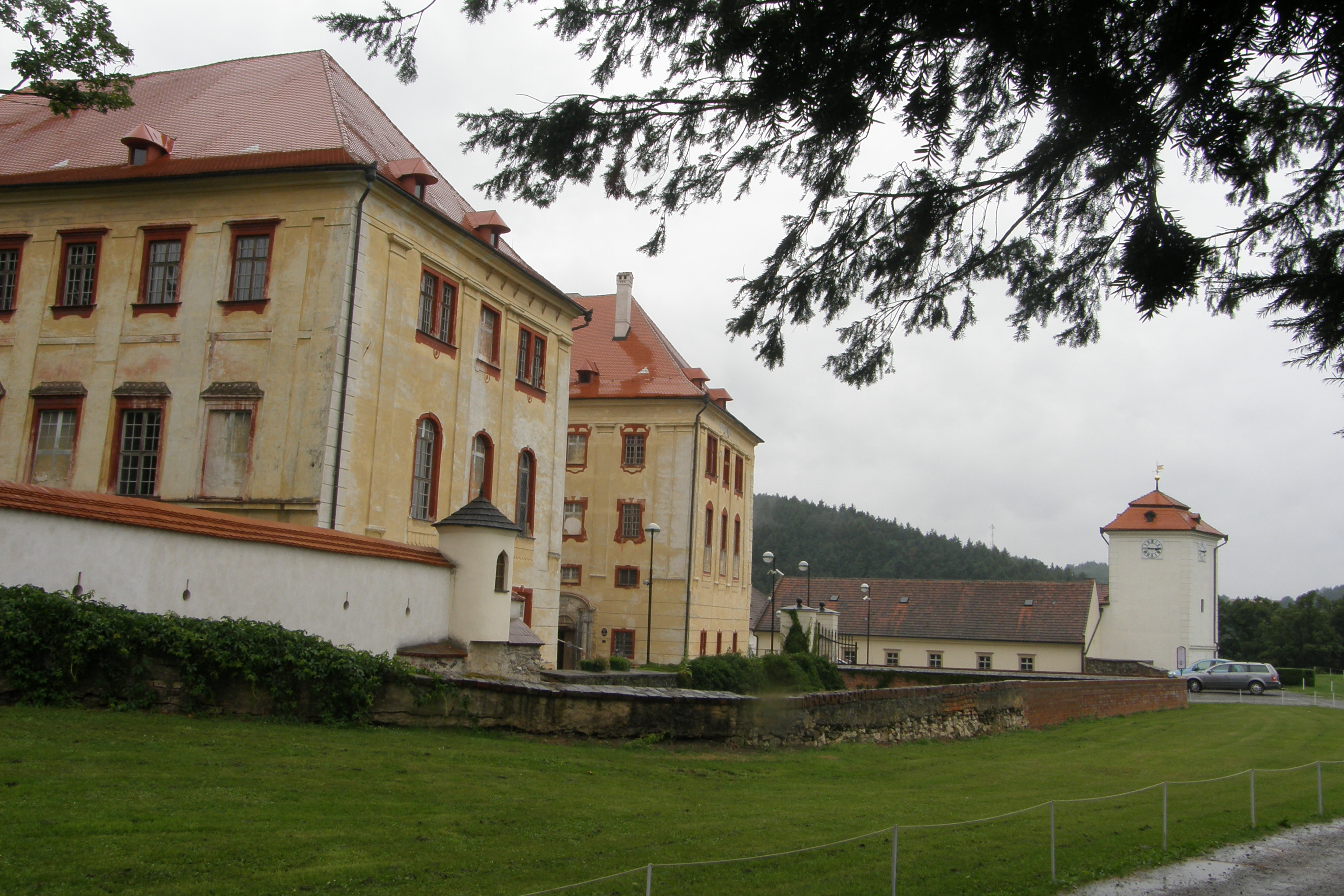 Kunštát Castle